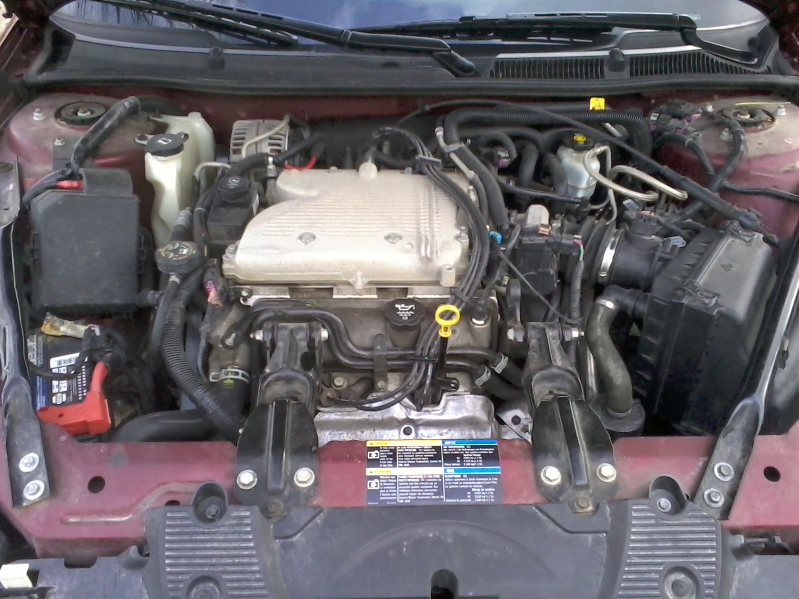 2008 Chevrolet Impala 3.5 L High Value engine without flex-fuel capability without cover